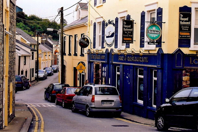 Killybegs - View of Main Street from R263